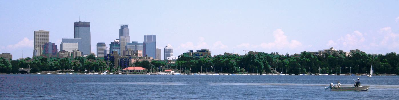 Lake Calhoun, Minneapolis, Minnesota. This copy is cropped and/or modified.